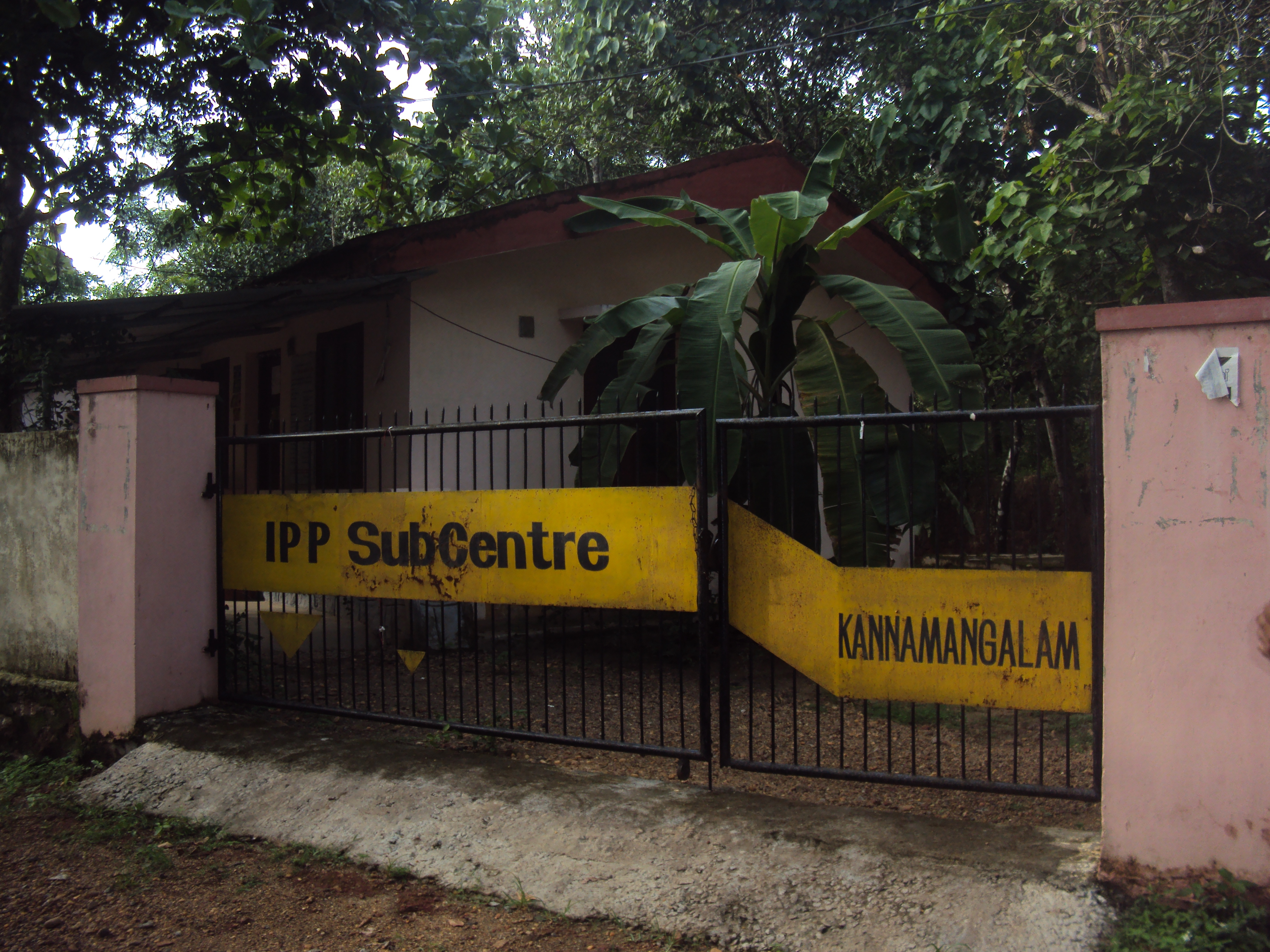 Poocholamad Health Sub centre